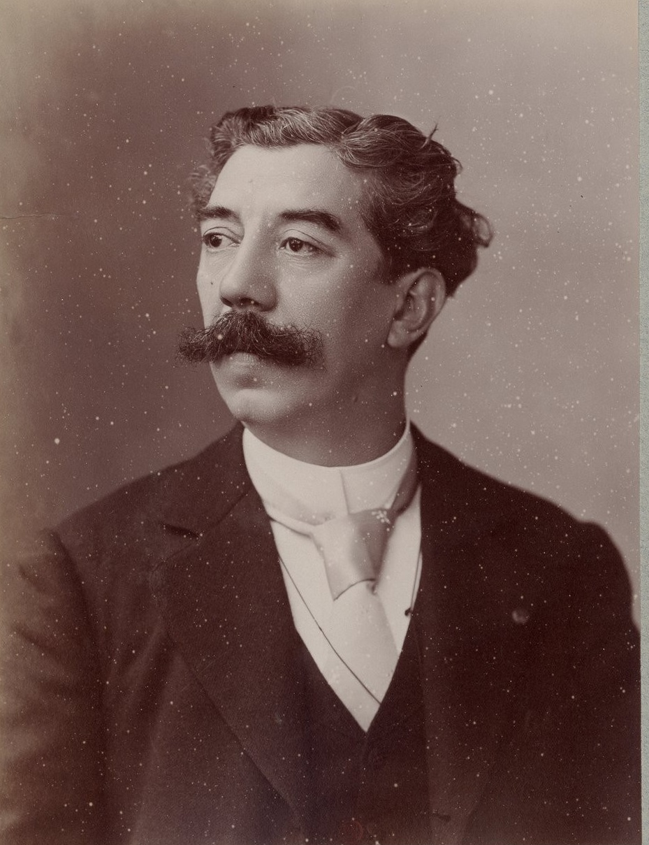 Portrait of French opera singer Alfred Giraudet (1845-1911)